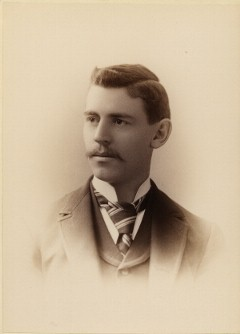 Picture of Willard Livingstone Beard